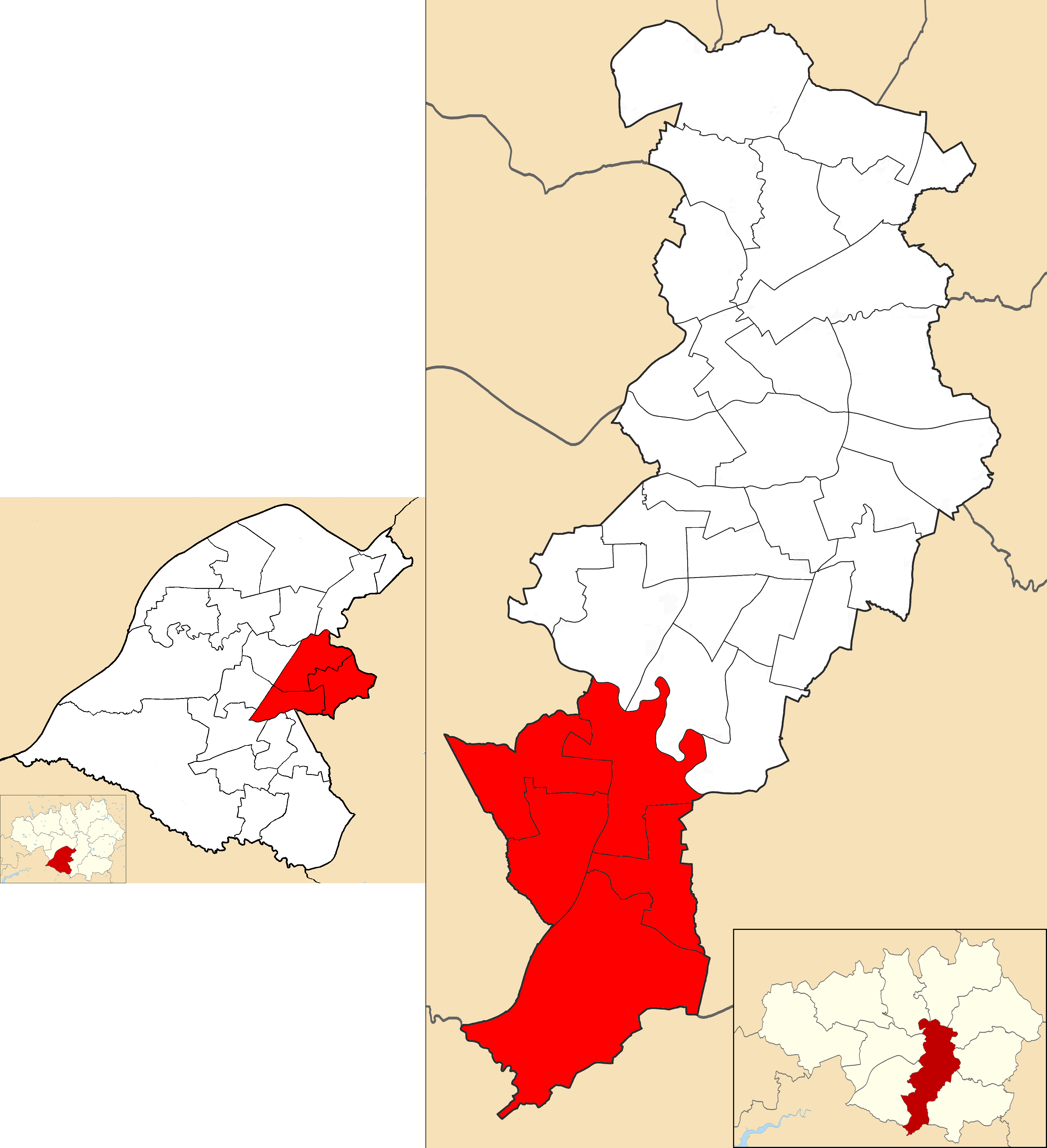 Map showing location of Wythenshawe and Sale East (UK Parliament constituency) 2018 with wards in both Trafford Metropolitan Borough Council and Manchester City Council.